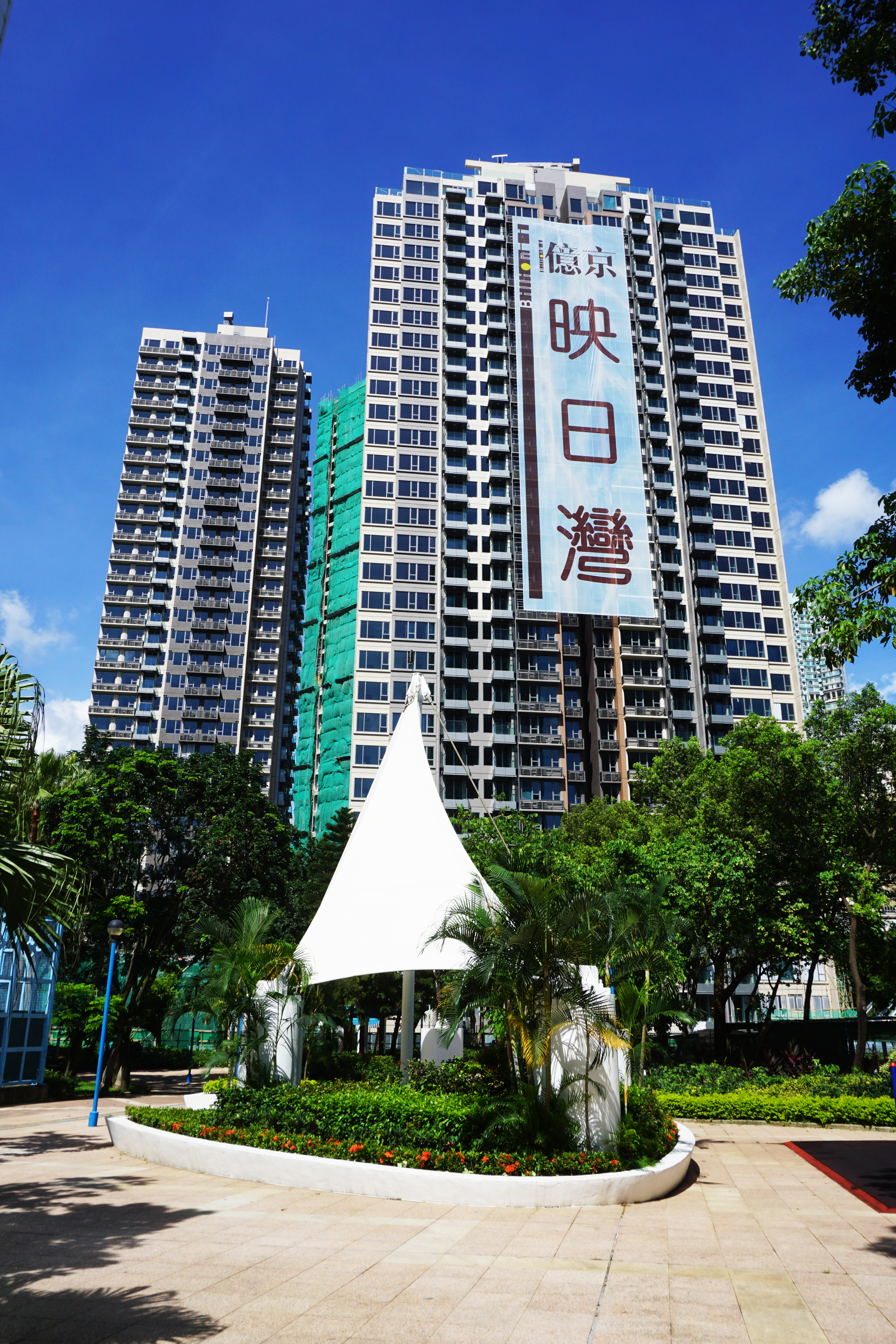 The Aurora in Tsuen Wan, Hong Kong.